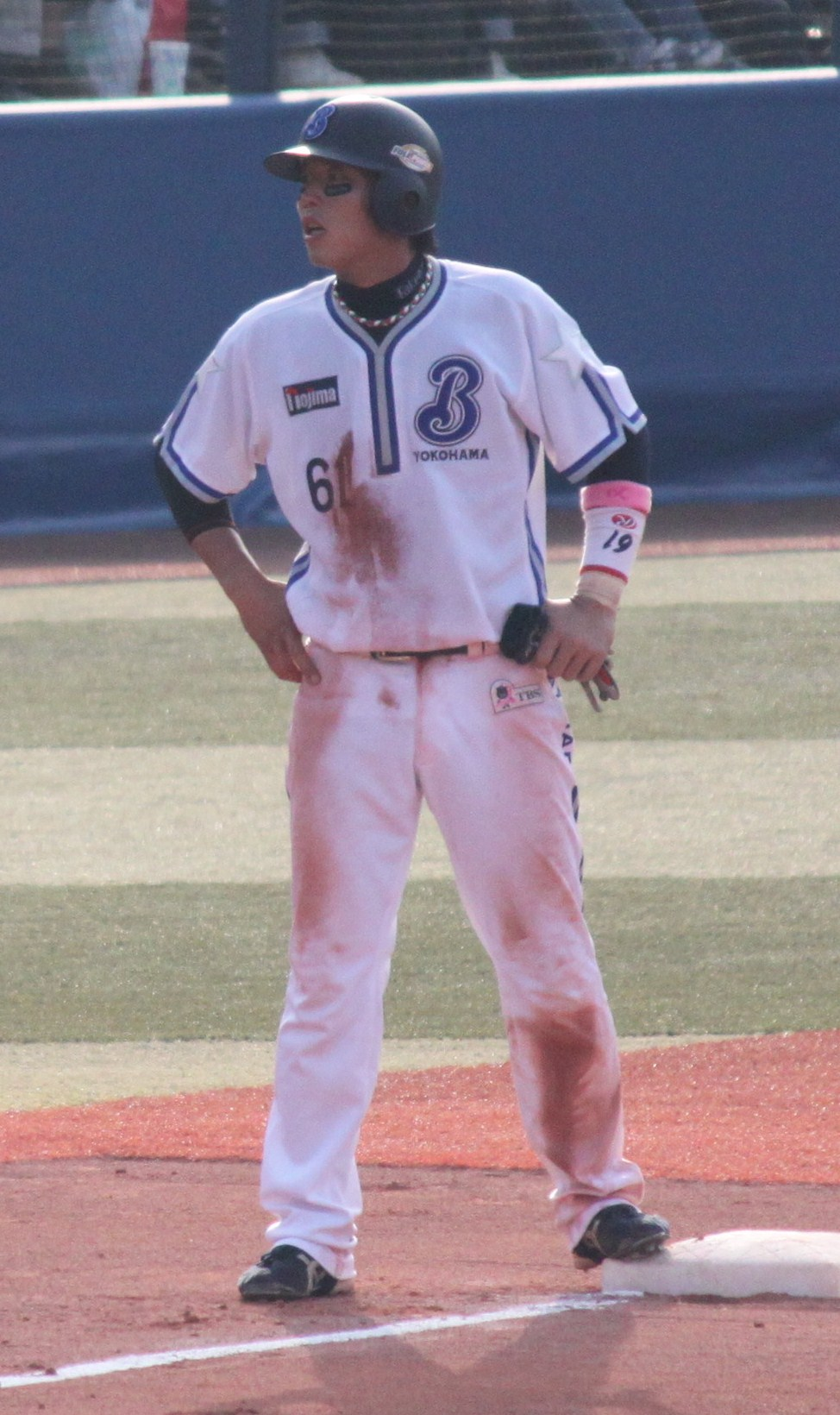 Shingo Takeyama, catcher of the Yokohama BayStars, at Yokohama Stadium.